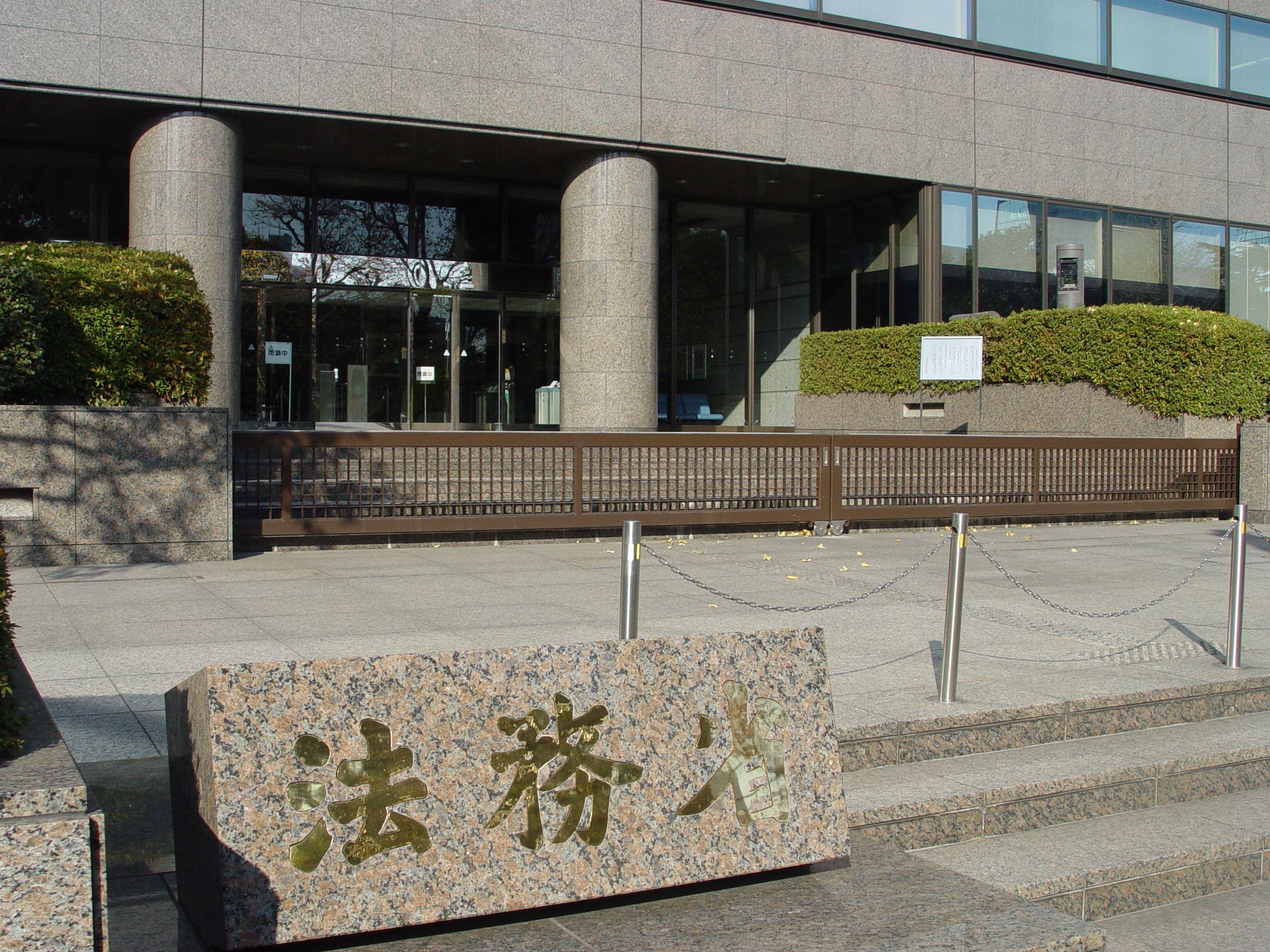 One of the public office buildings of the The Ministry of Justice, Japan 法務省庁舎